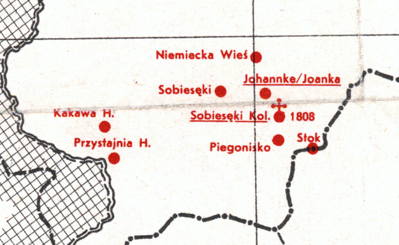 German settlements in 1938 around Sobiesęki